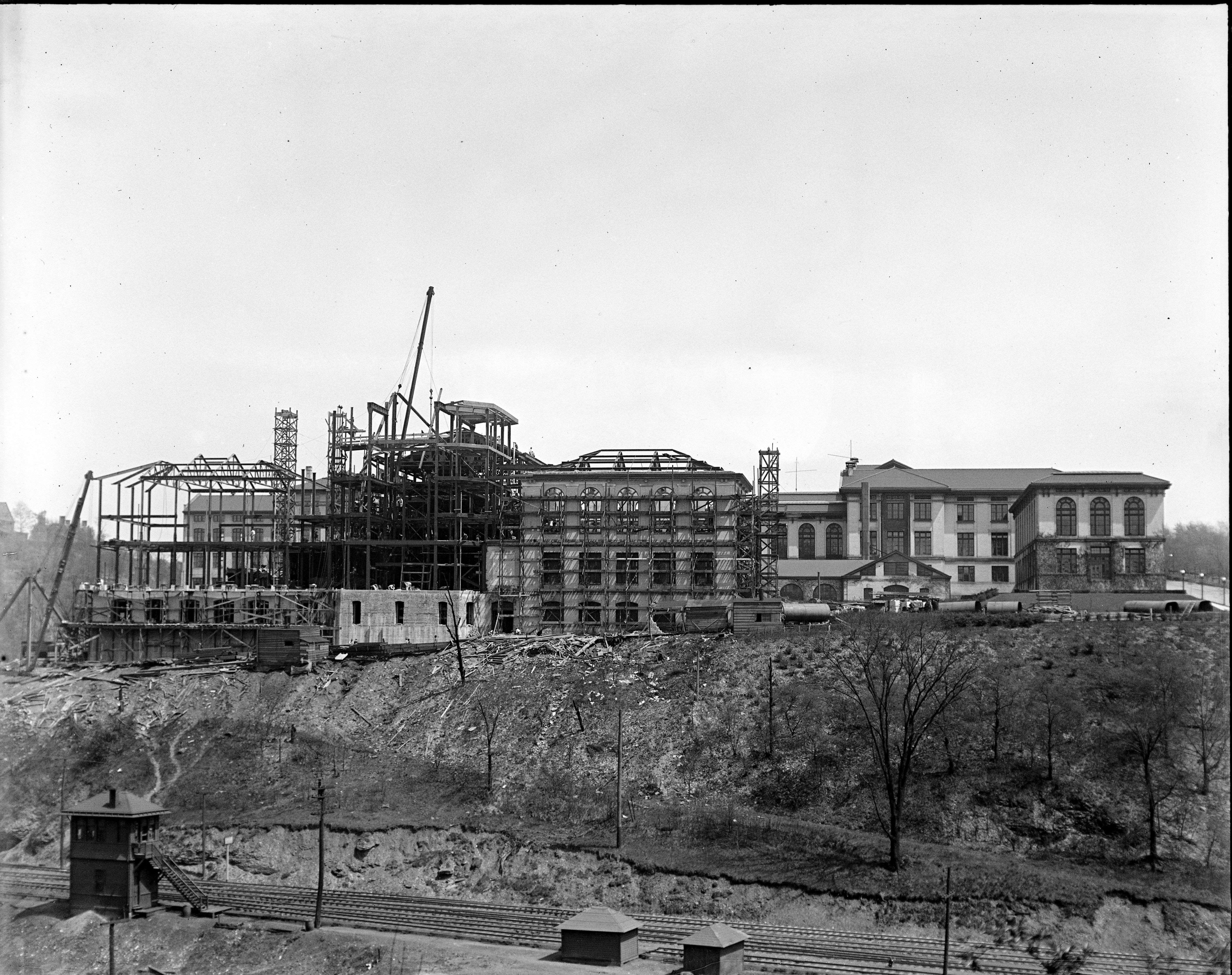 Scan of a 4x5 glass plate. Envelope reads" Carnegie Institute of Technolog, Pittsbugh, PA. 1912-1913? Aperture f/22. (Now Carnege-Mellon Univ.)